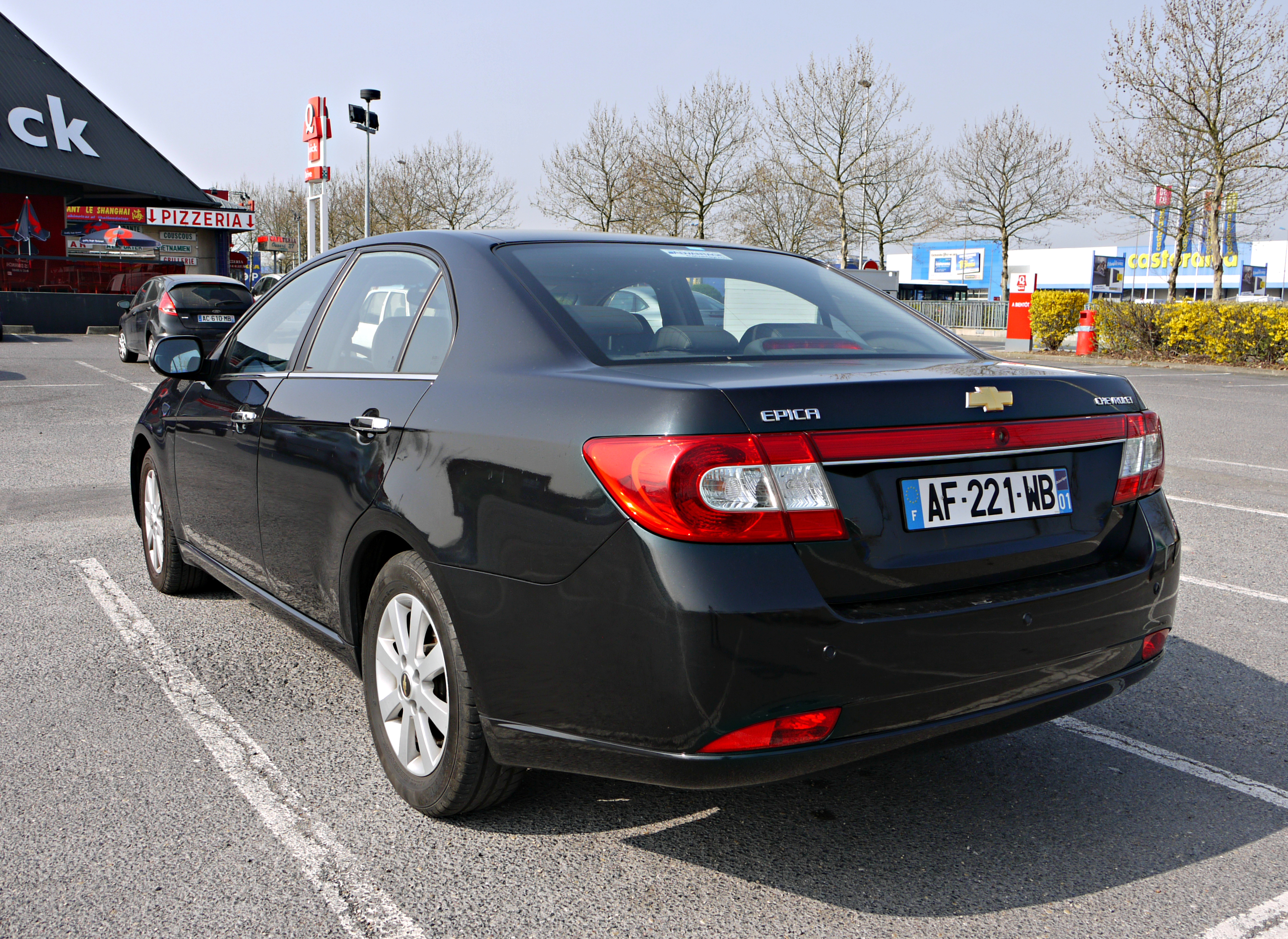 Chevrolet Epica saloon. Rented for a couple of days to drive around Paris before going back home. Fully equipped but the quality of materials was years behind. Despite the low mileage, the interior looked exhausted. Chevrolet should have kept the name Daewoo for their "low-cost" models (ie: Renault with Dacia)....